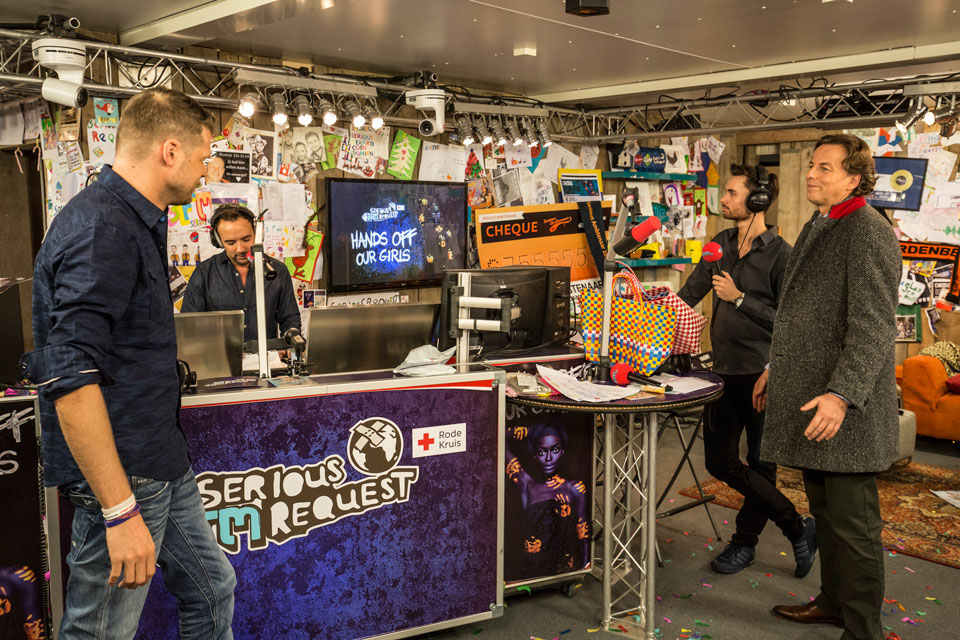 24 December 2014 Bert Koenders at the 3FM Serious Request campaign ‘Hands off our girls’. Visiting the three DJs at the ‘Glazen Huis’ in Haarlem.